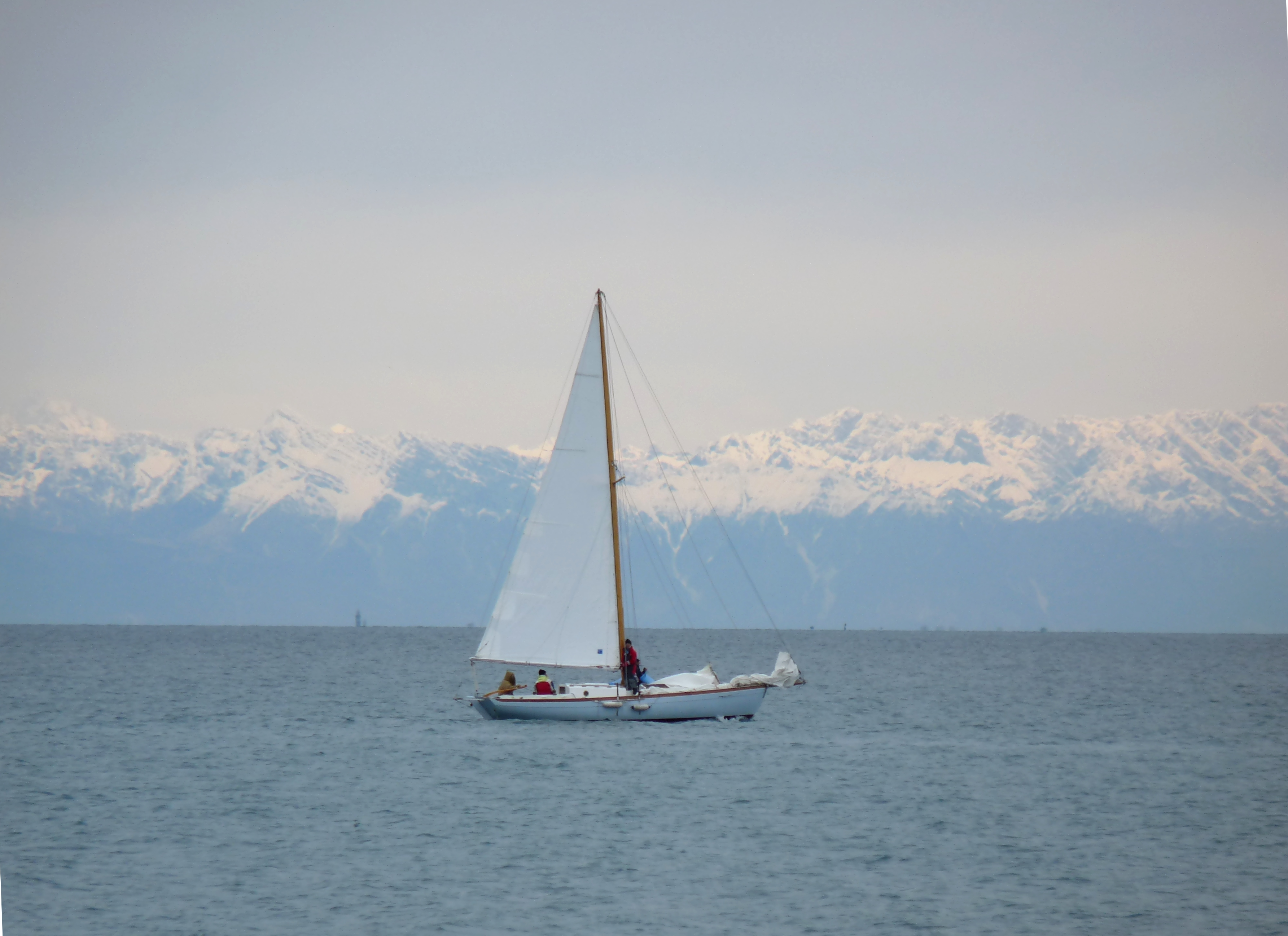 A sailboat in the harbour of Izola-Isola, on the background the snow-capped peaks of Alps